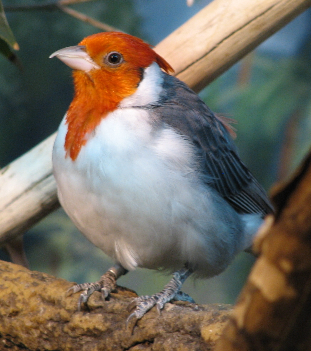 Red Crested Cardinal